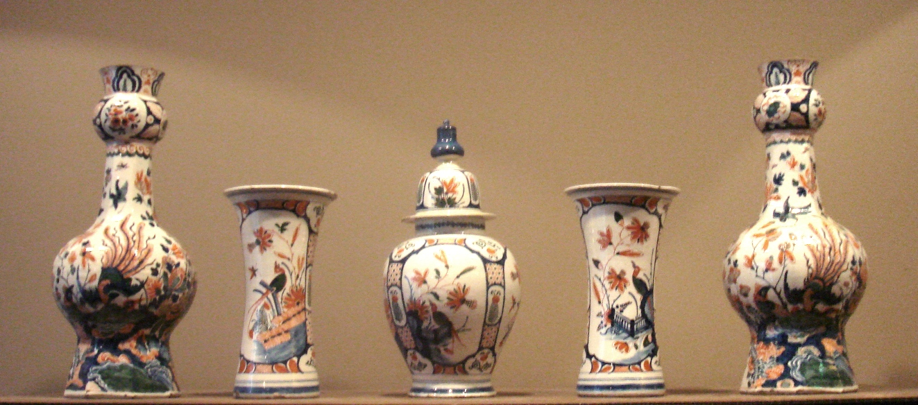 Delft_vases_1725_1760, photographed by me at the Musee des Arts Decoratifs, Paris.